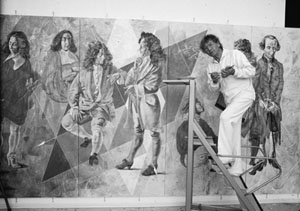 Hans Erni